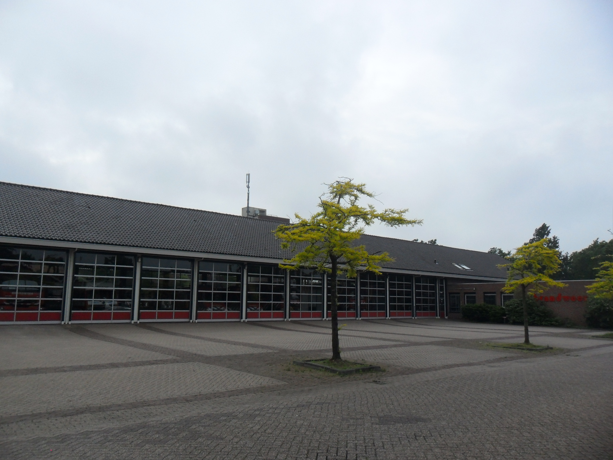 Fire Station Sneek